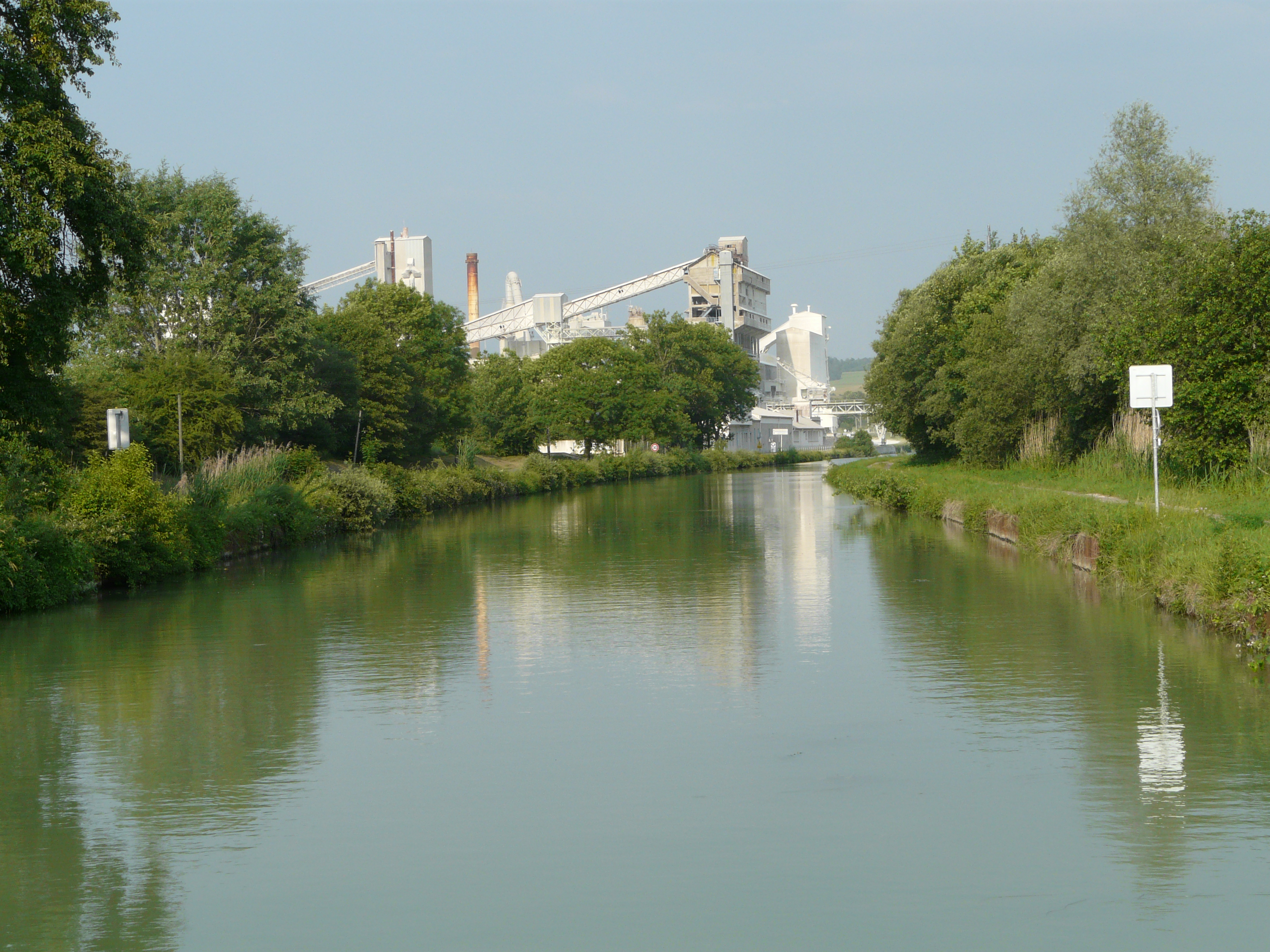 Canal de la Meuse near its junction with canal de la Marne au Rhin. View taken at the Frâne lock near Sorcy-Saint-Martin. In the background the lime kilns of Sorcy.